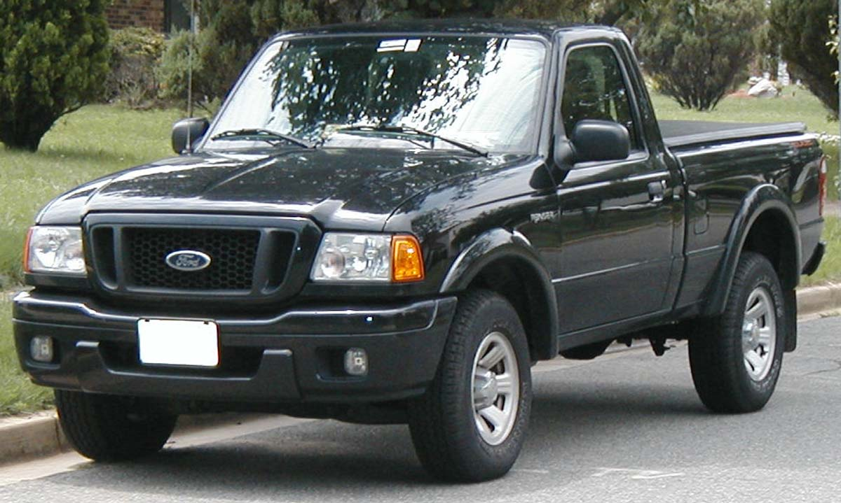 Ford Ranger Edge photographed in USA.